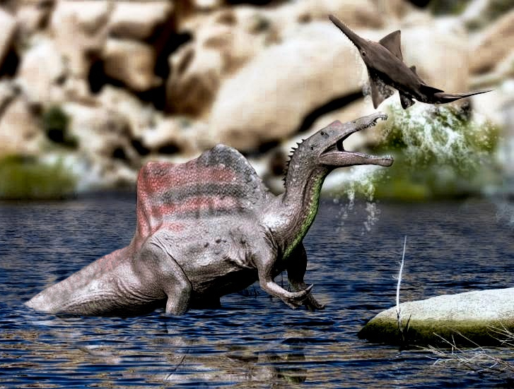 Life restoration of the African theropod dinosaur Spinosaurus fishing for the giant sawfish Onchopristis.